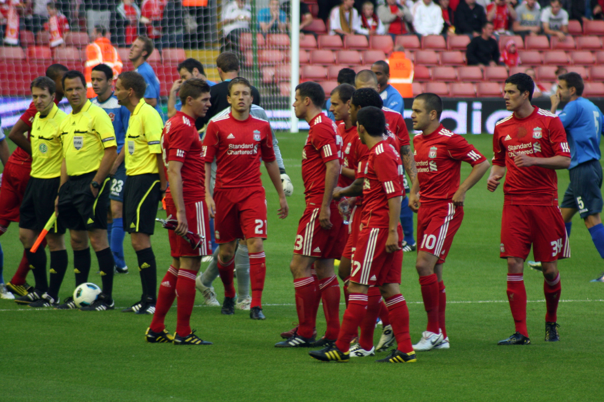 Players of Liverpool FC before Europa League qualifying match vs Rabotnicki.